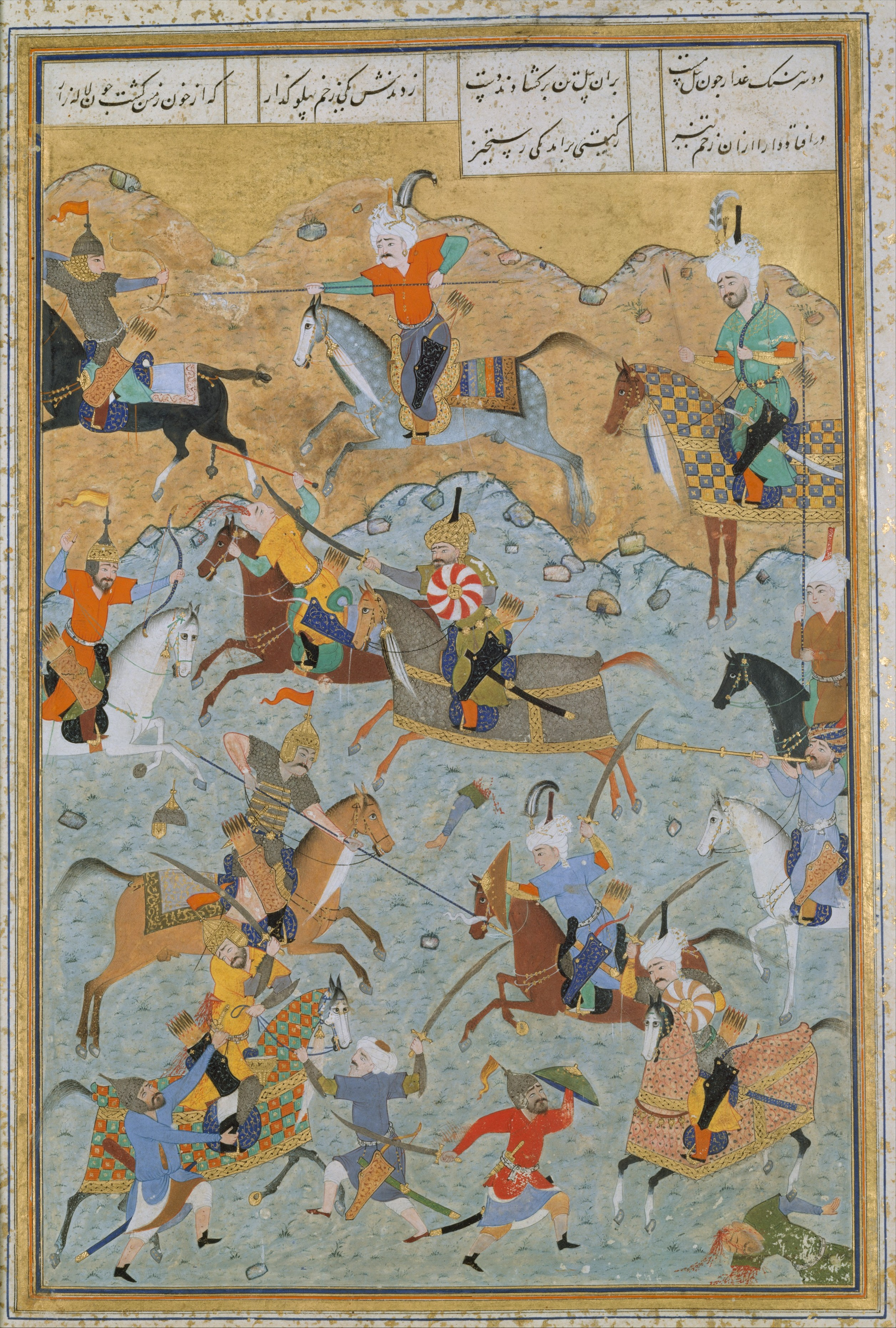 Folio from an illustrated manuscript; Codices